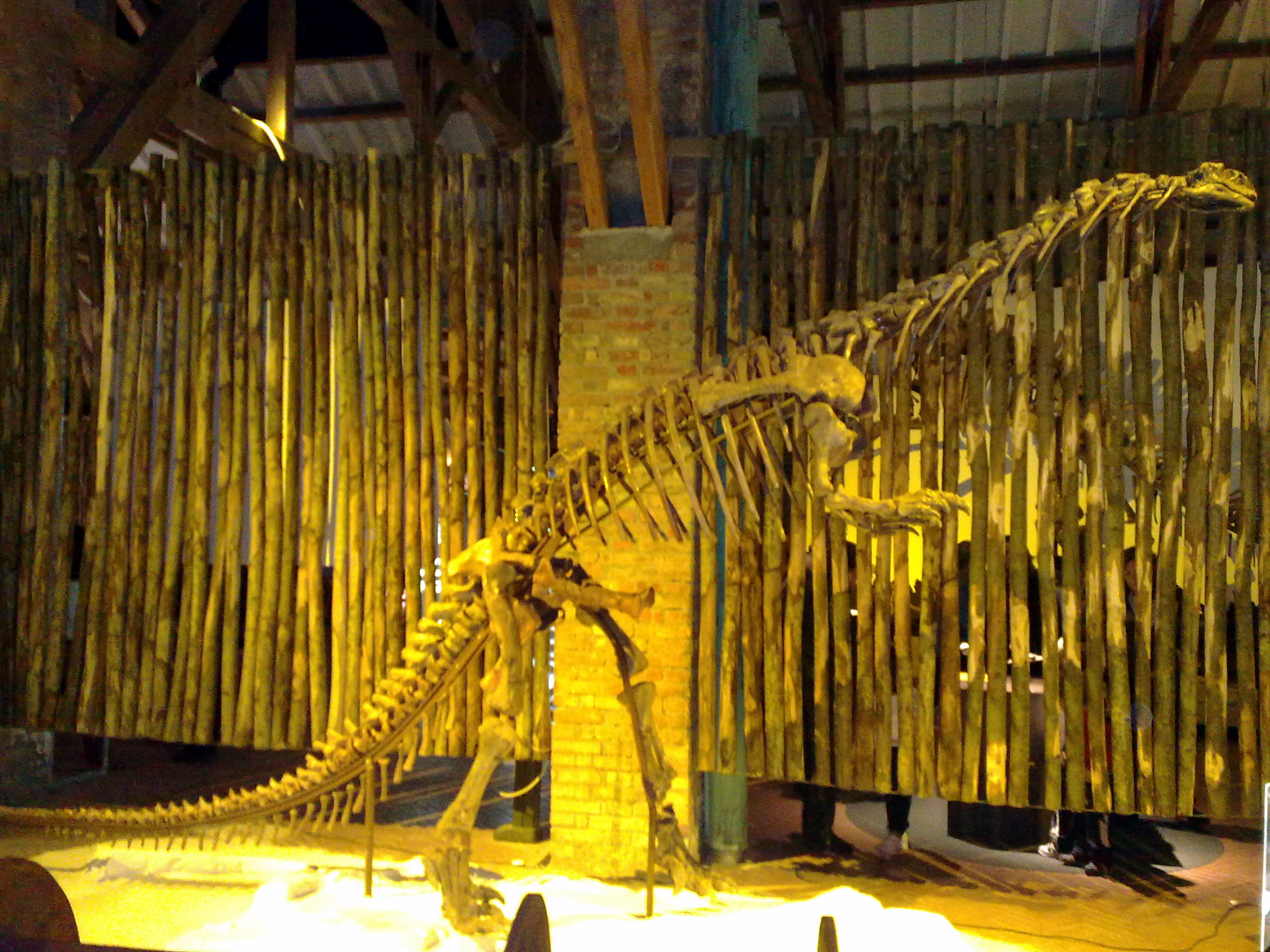 Lufengosaurus